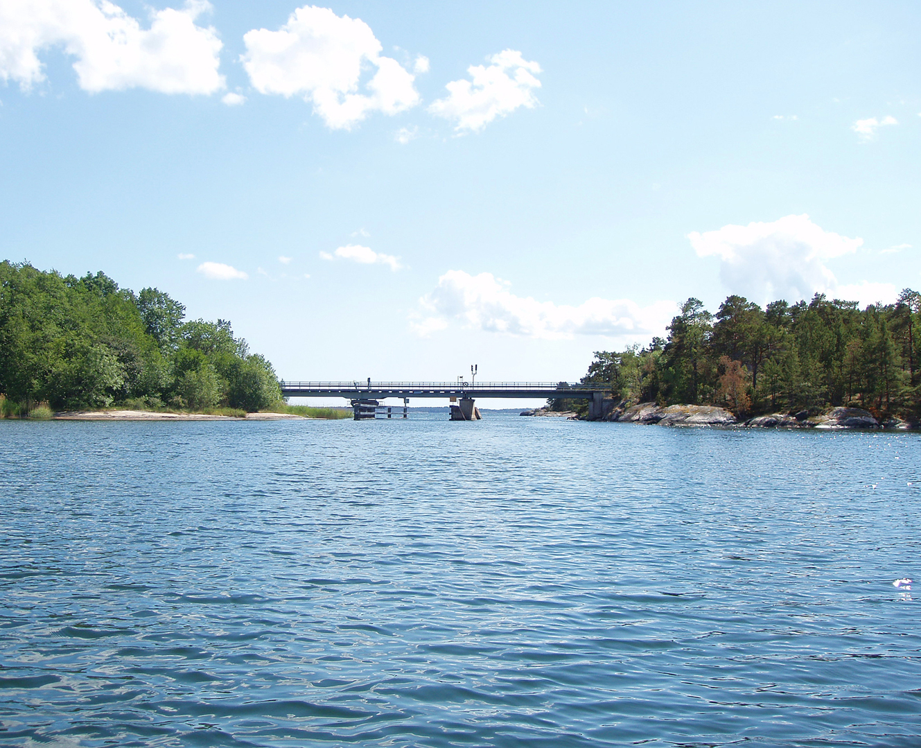 Klintsundet and the bridge connecting the West- and North Lagnö, Ljusterö, Sweden. View towards Gällnan.